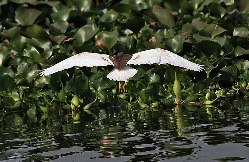 Indian Pond Heron Ardeola grayii in Kolkata, West Bengal, India.